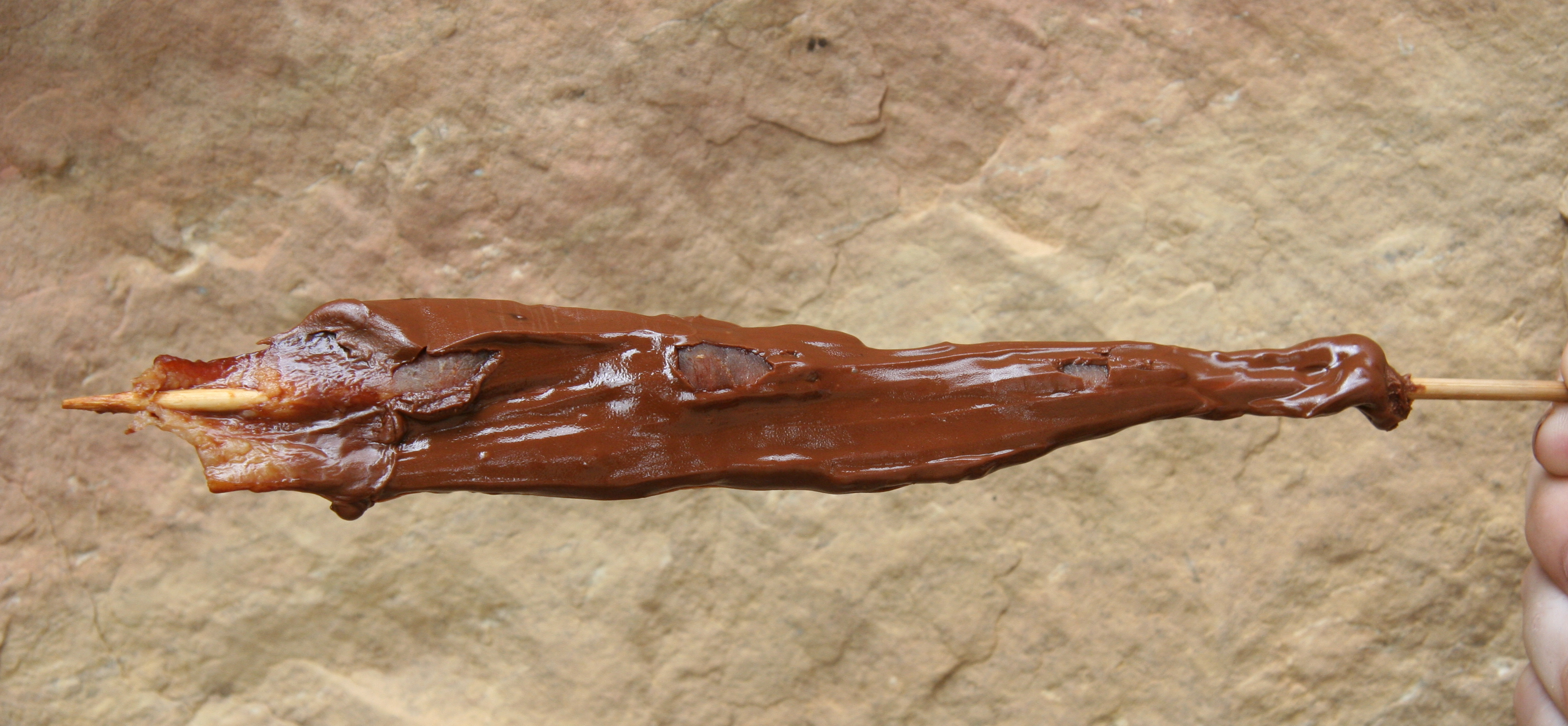 Chocolate-covered bacon on a stick, sold at the farmers' market in Rochester, Minnesota